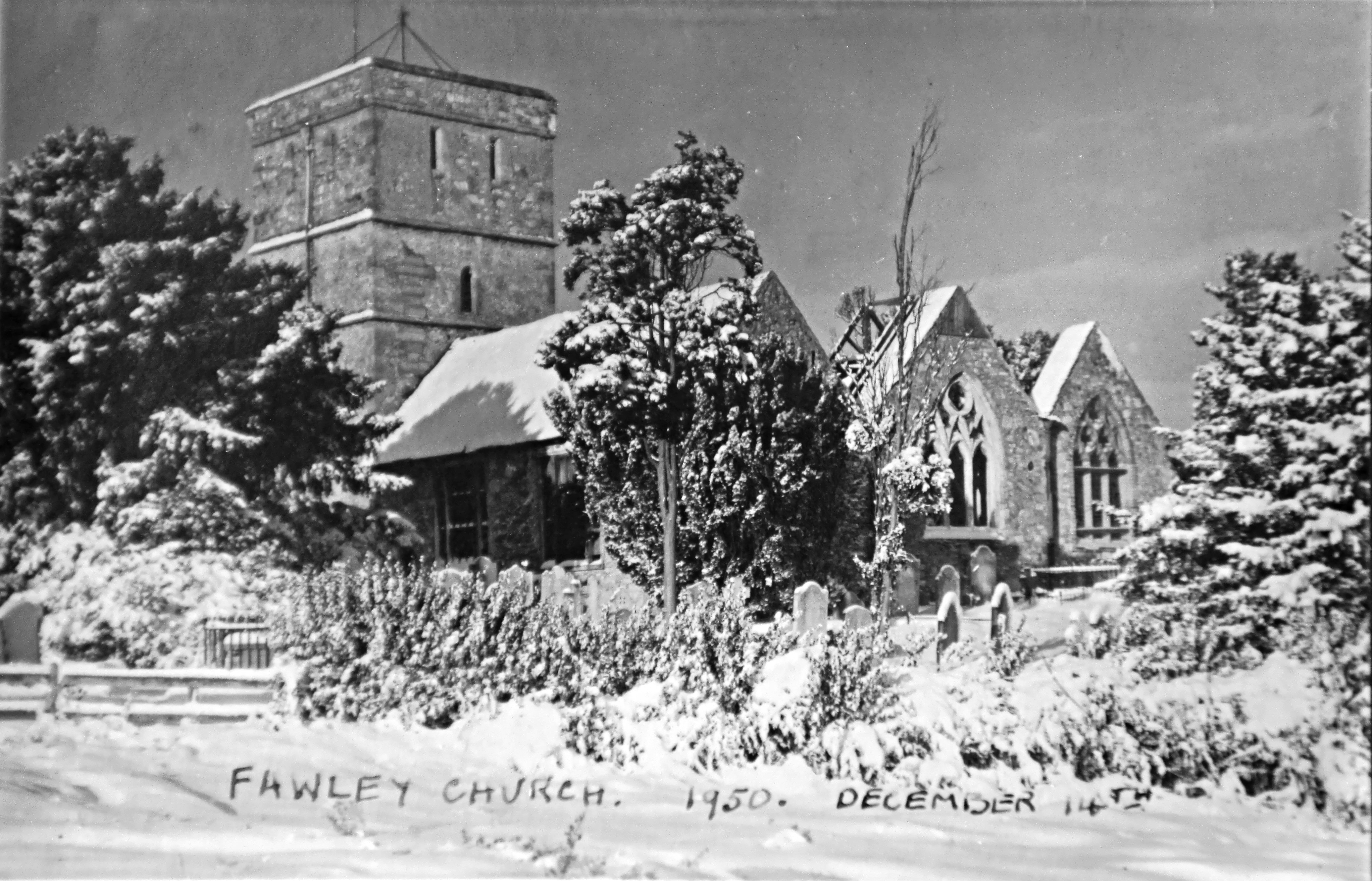 All Saints' parish church, Fawley, Hampshire, in December 1950 showing bomb damage